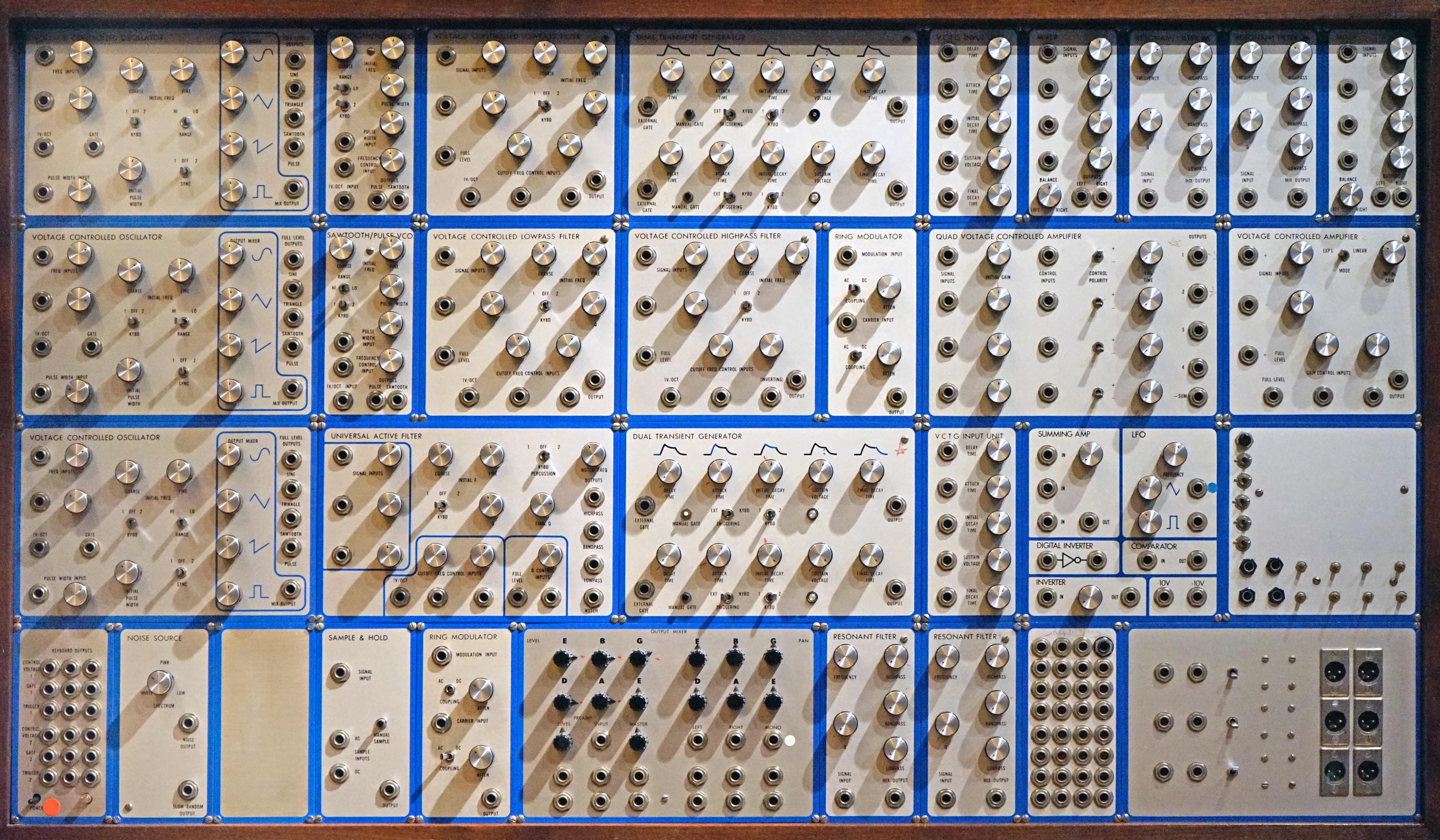 EMU Synthesizer, USA, 1971-1973 modular analog synthesizer developed for Frank Zappa (1940-1993) to be controlled from an electric guitar